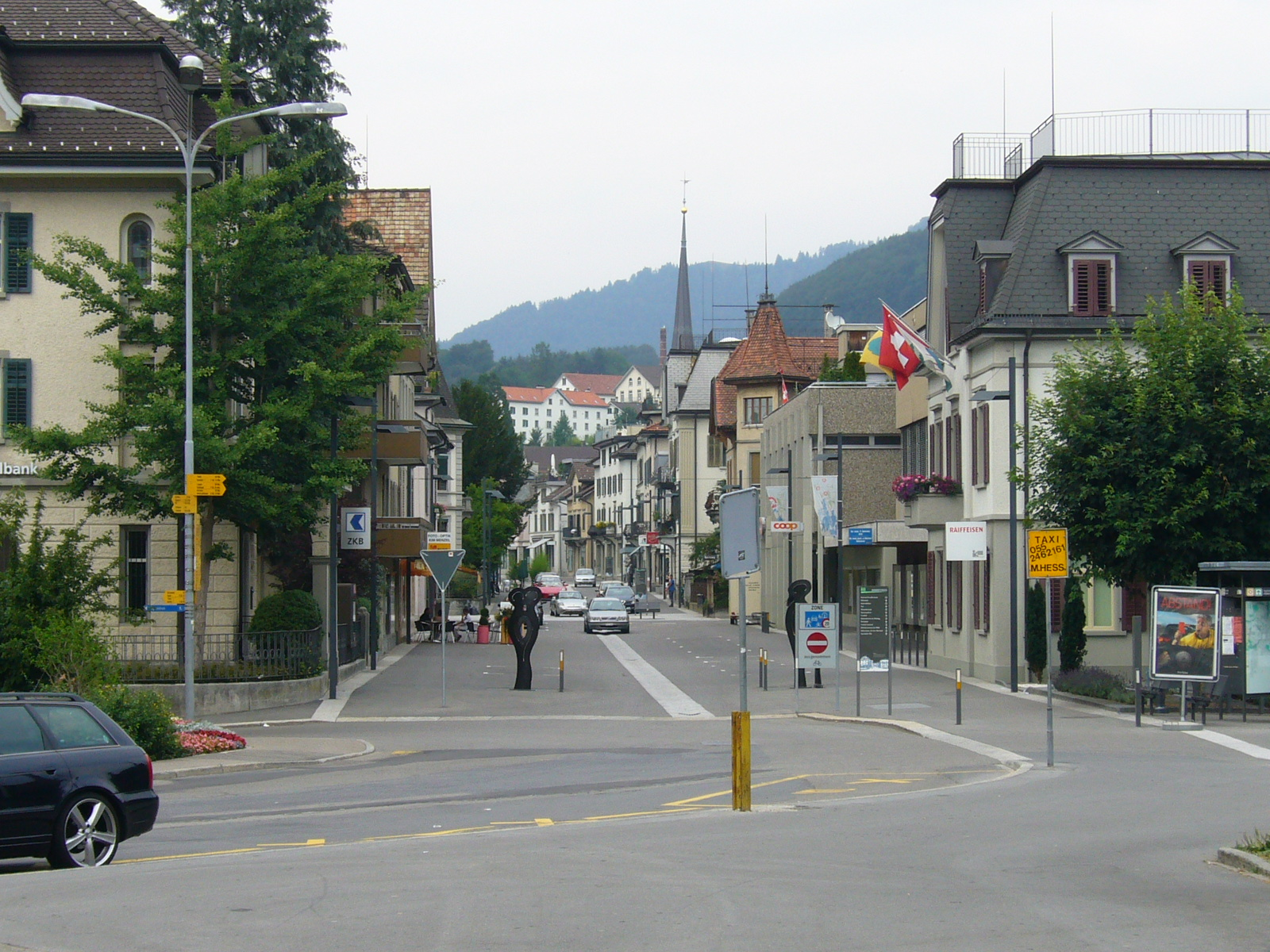 Bahnhofstrasse in Wald, canton of Zurich, Switzerland. Picture taken by Peter Berger, July 22, 2006.